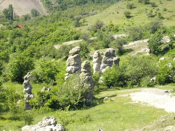 Large pillars in Kuklica, called "Joly Wedding".